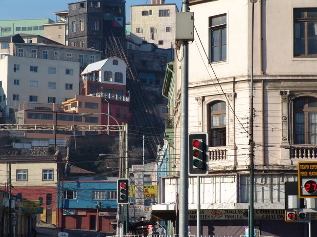 Valparaiso